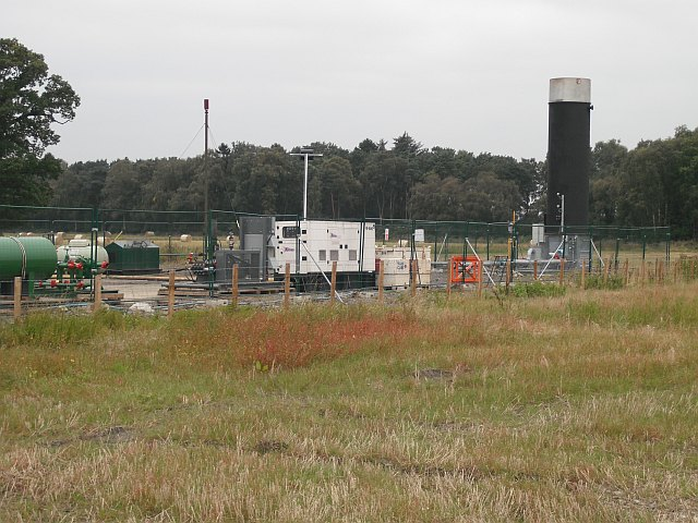 Composite Energy, Letham One of several sites where methane in coal beds is being extracted for energy.